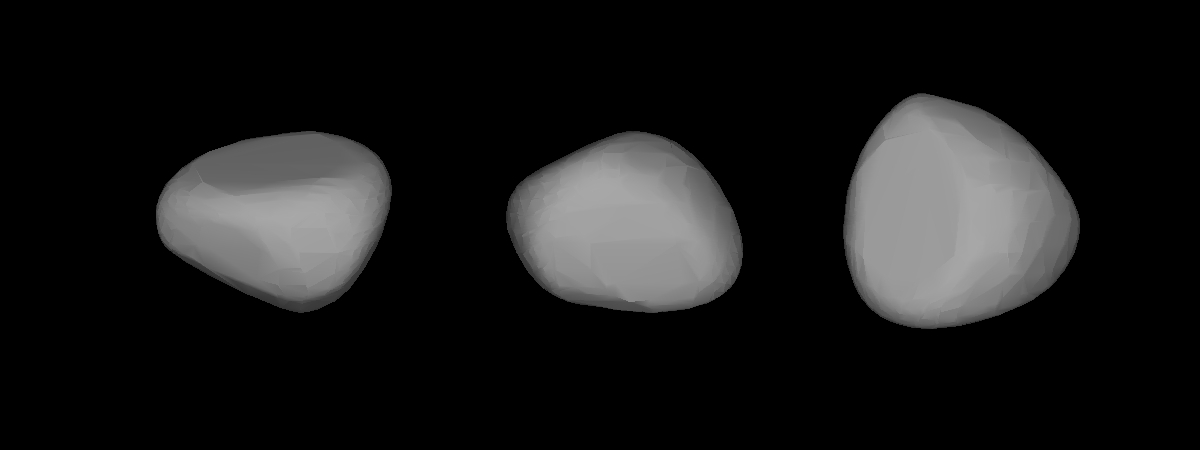 A three-dimensional model of 27 Euterpe that was computed using light curve inversion techniques.